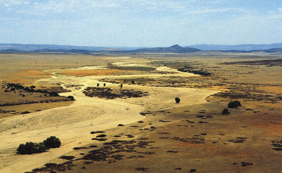 "Aerial view of Granite Creek drainage in July 1997, looking north (downstream) towards the Verde River," Arizona, USA